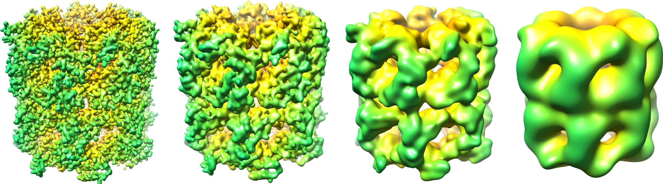 Series of Resolutions for GroEL